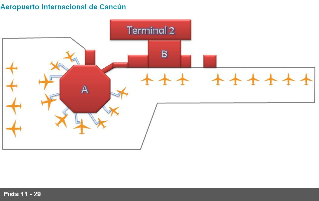 Cancun Terminal 2 Layout